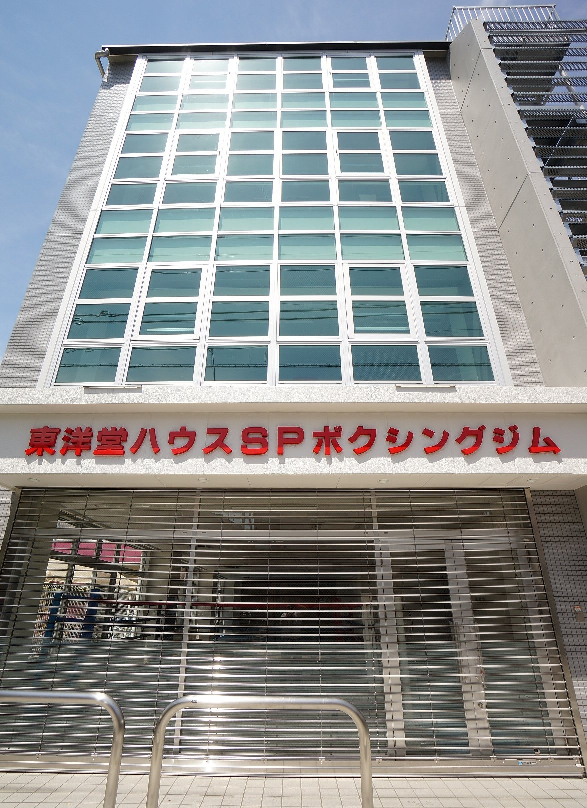 TOYODO HOUSE Head office building